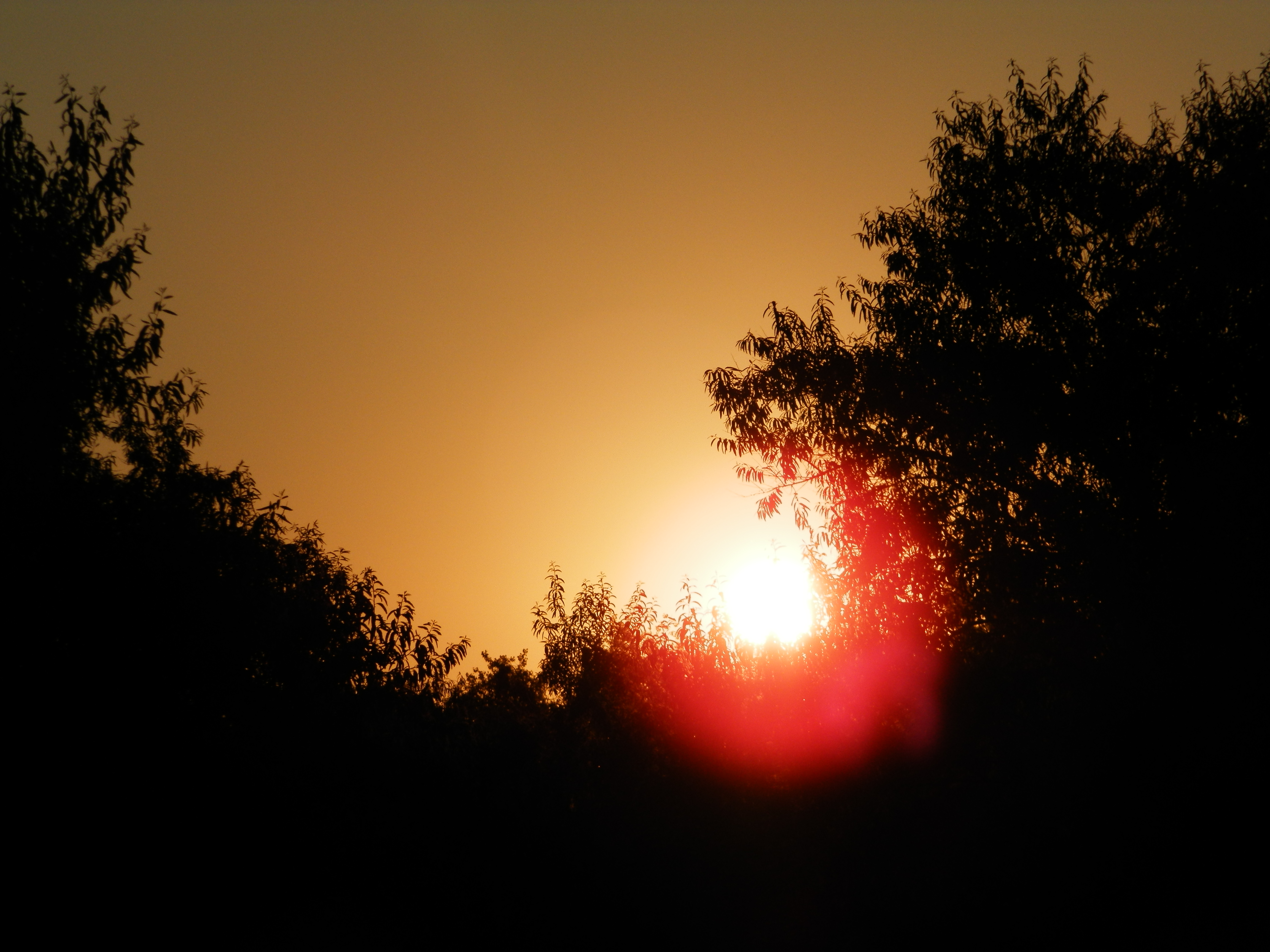 The sunset